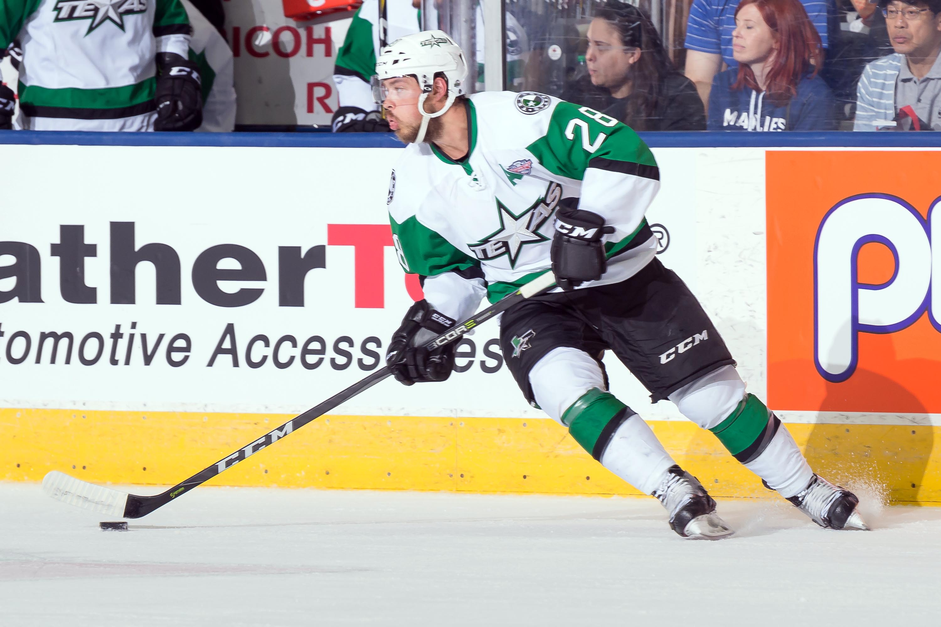 Photo: Christian Bonin